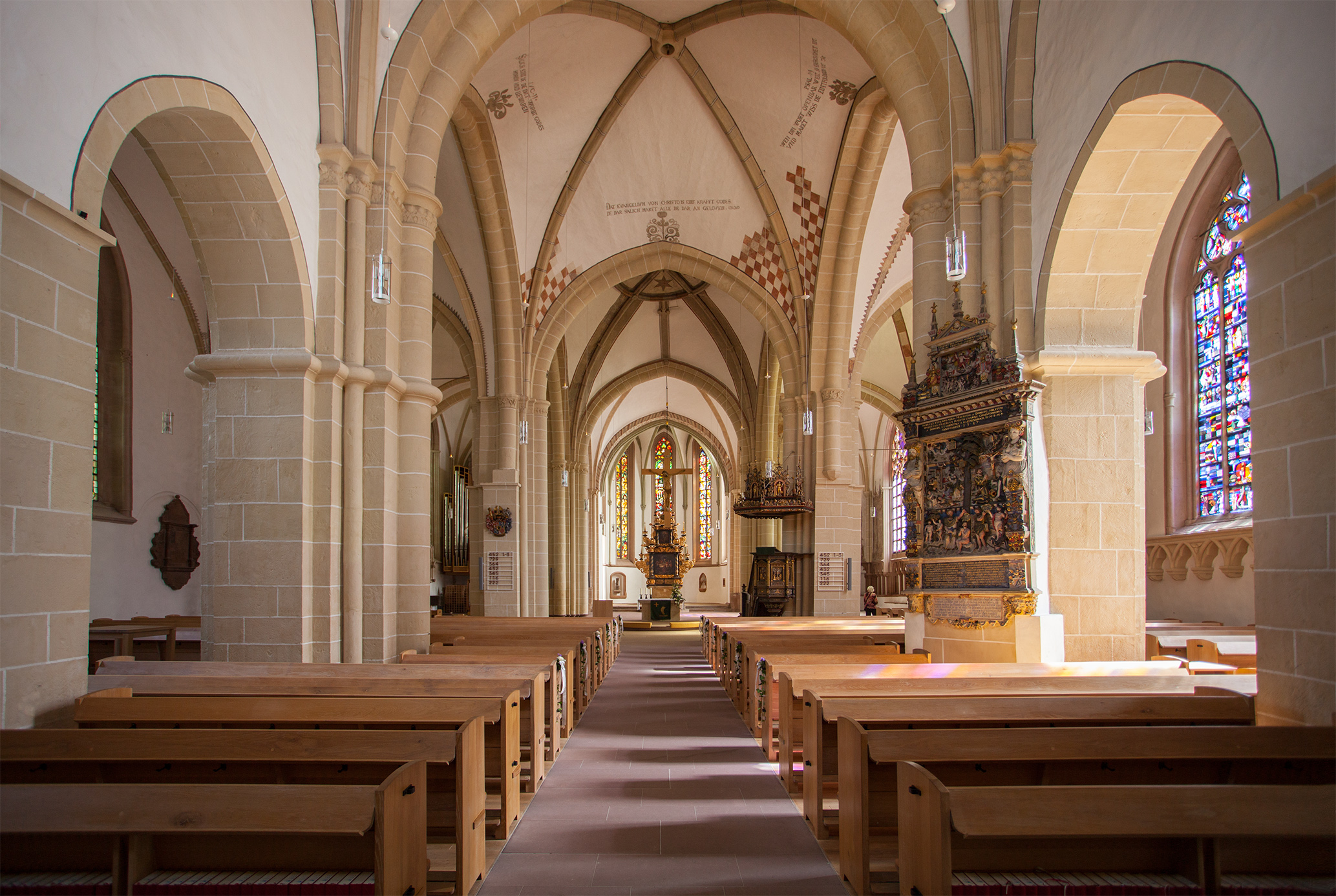 Innenraum von St. Nicolai in Lemgo This is a photograph of an architectural monument.It is on the list of cultural monuments of Lemgo